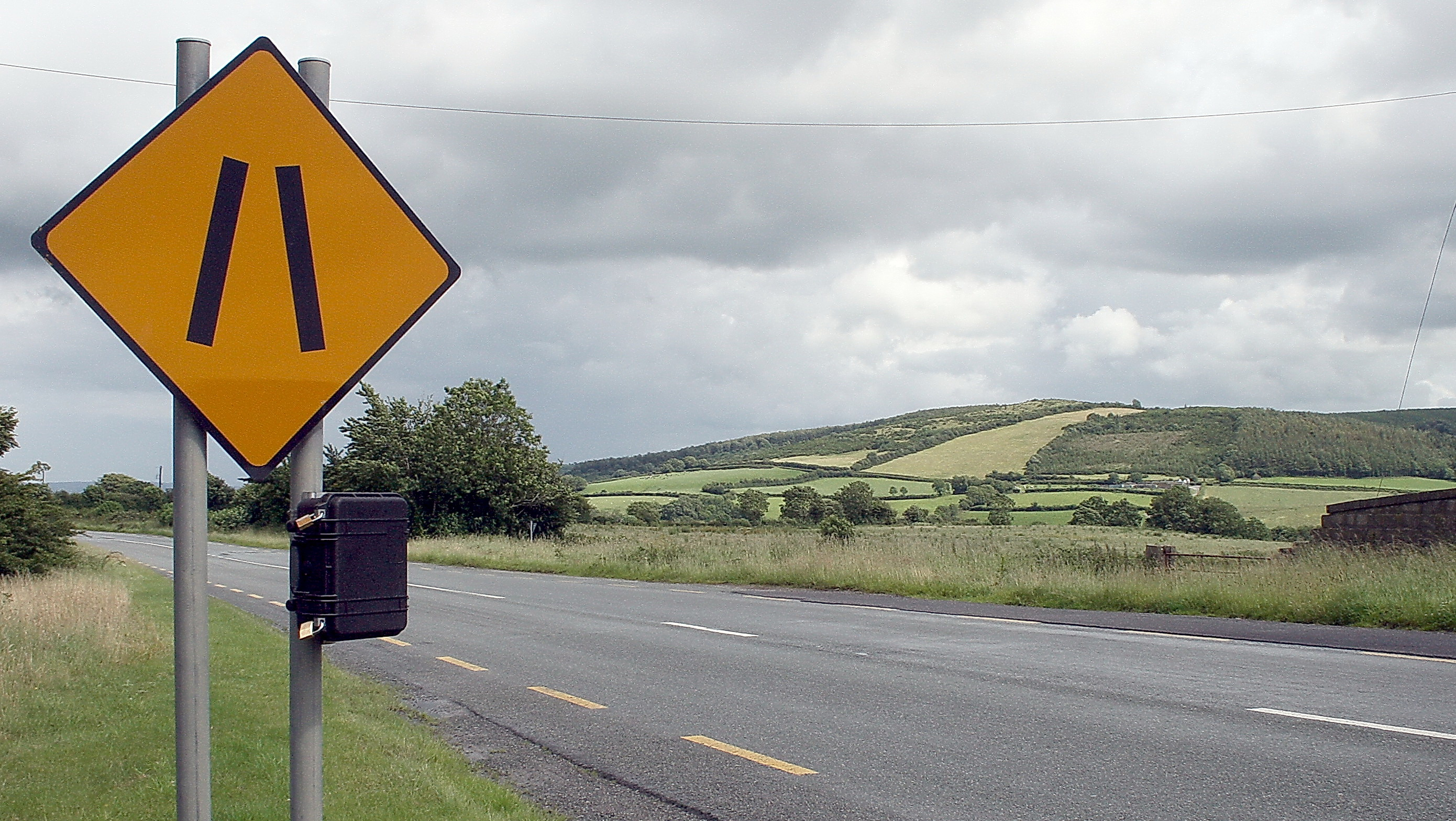 The R693 at Clomantagh, County Kilkenny, Ireland. What is in the locked box???